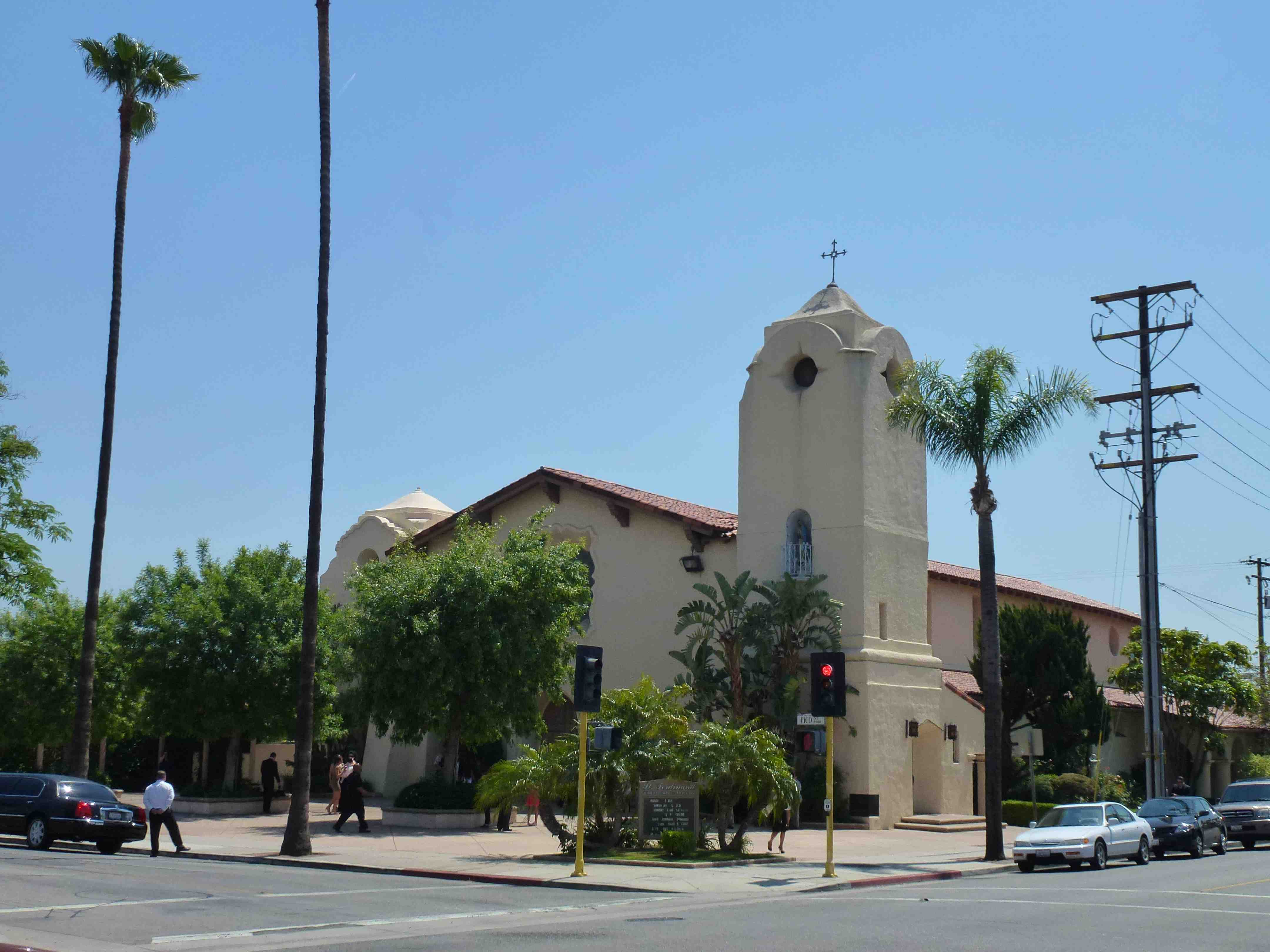 2013 - Iglesia St. Ferdinand - St. Ferdinand's Catholic Church